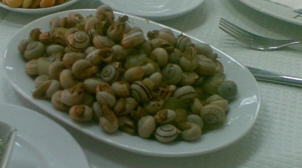 Portuguese snails'snack, Lisbon